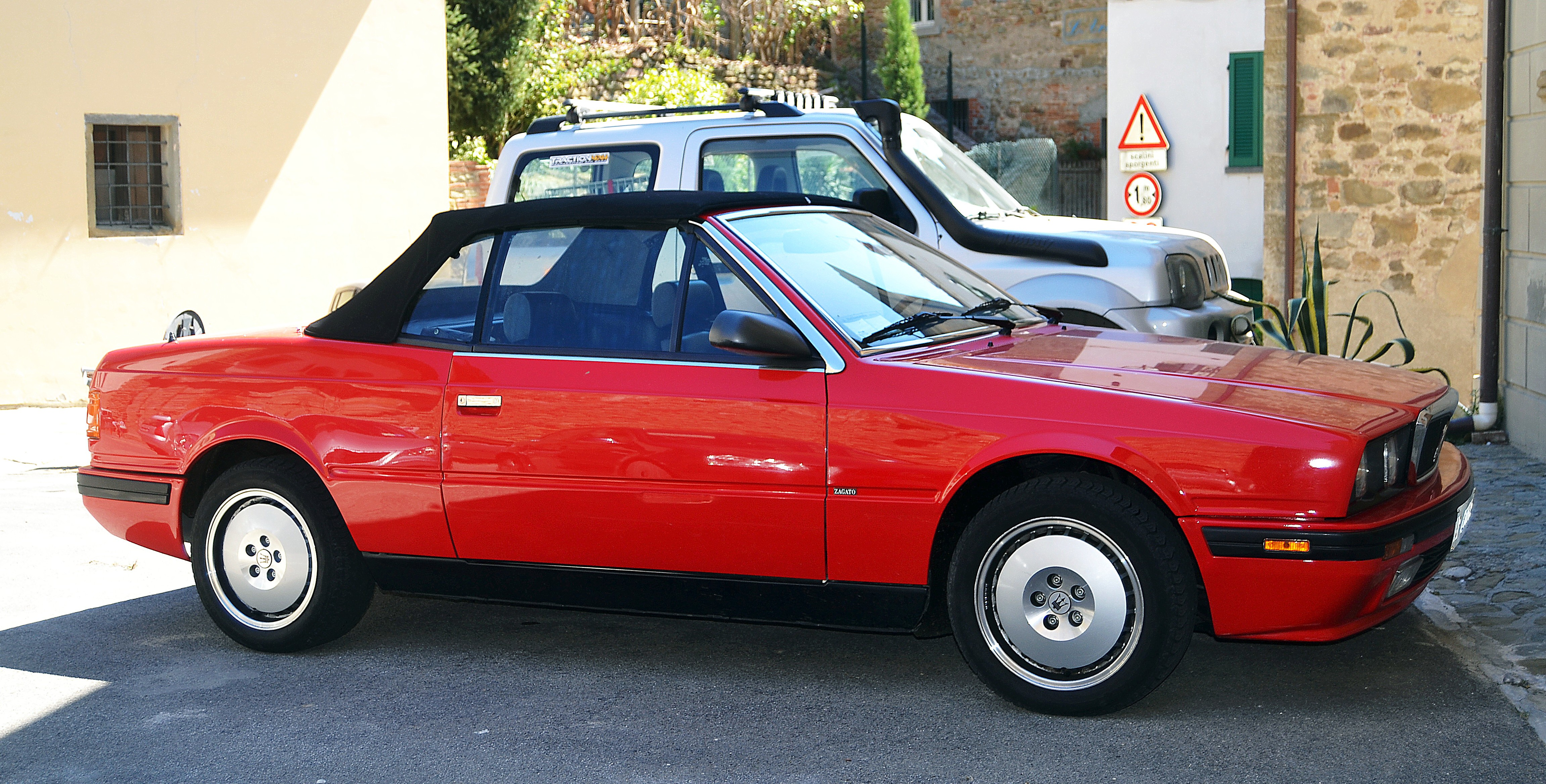 Maserati Biturbo Spyder